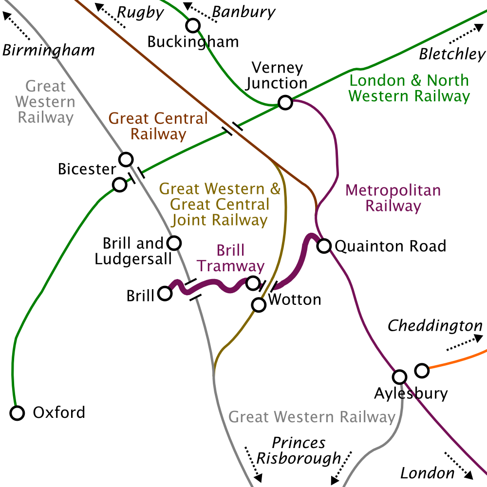 The Brill Tramway and associated lines, 1910